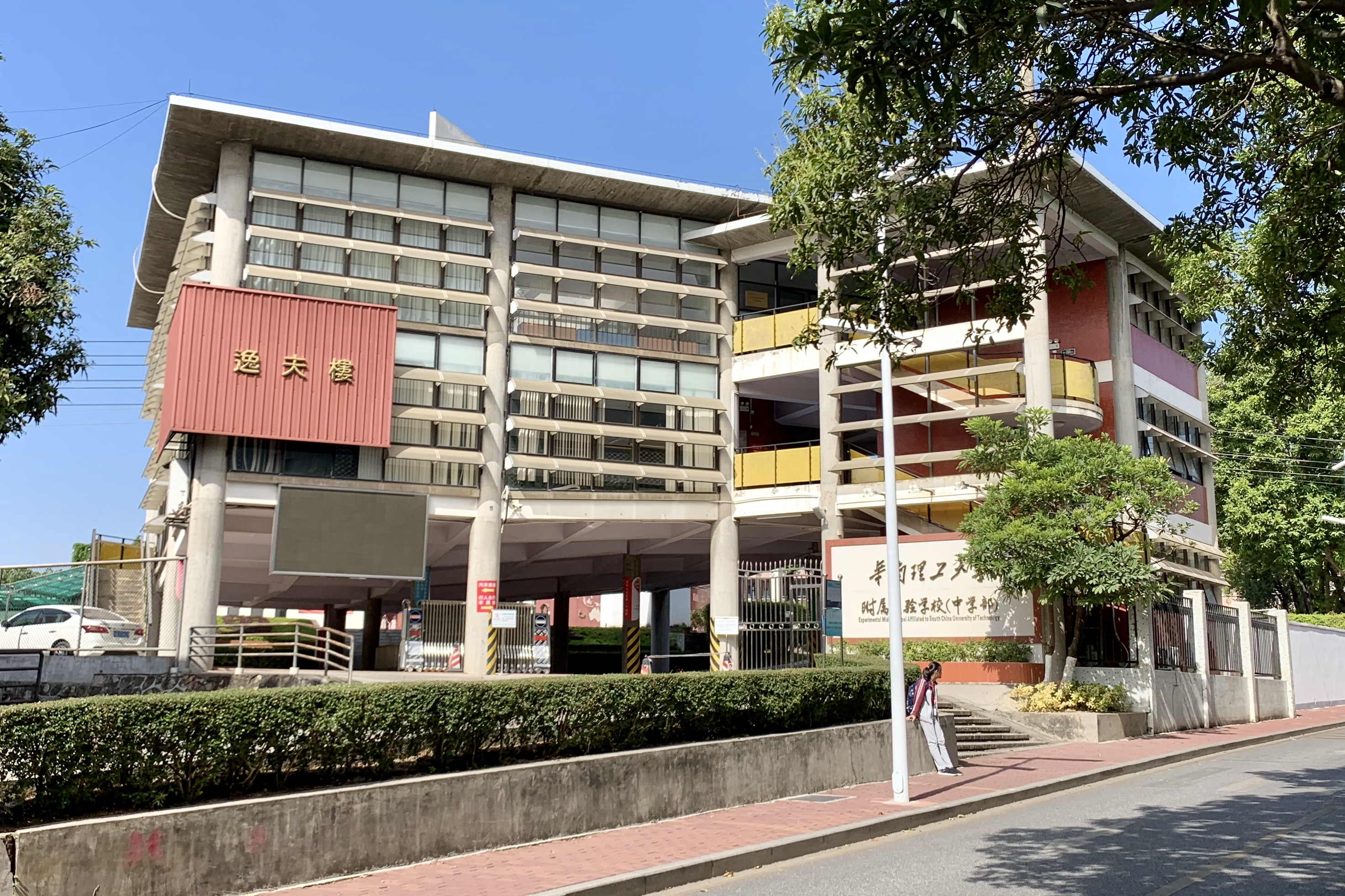 Main Gate of Experimental Middle School Affiliated to South China University of Technology (EMSA SCUT).